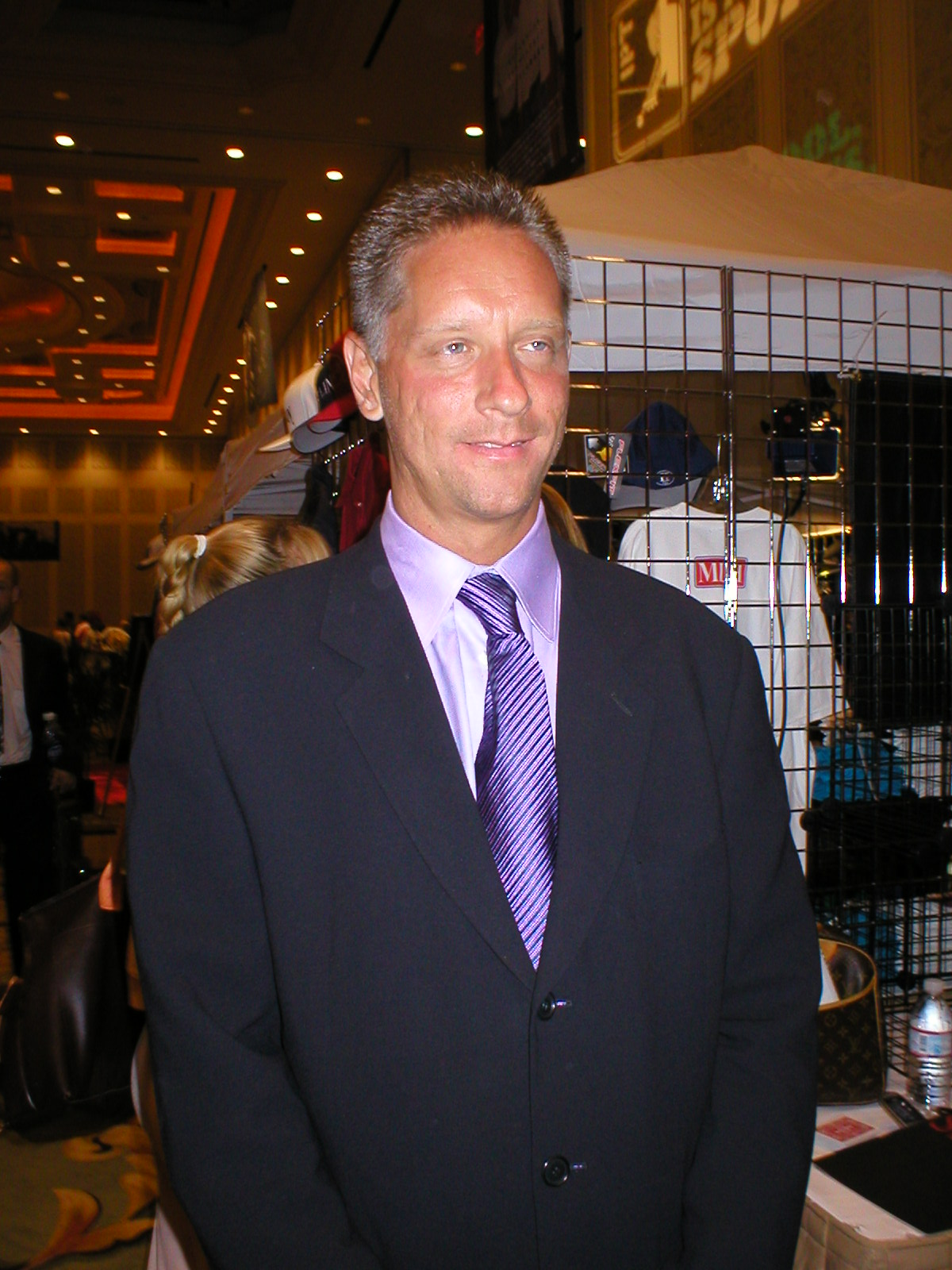 This is my personal picture that I took with my camera and may be released to the public domain.